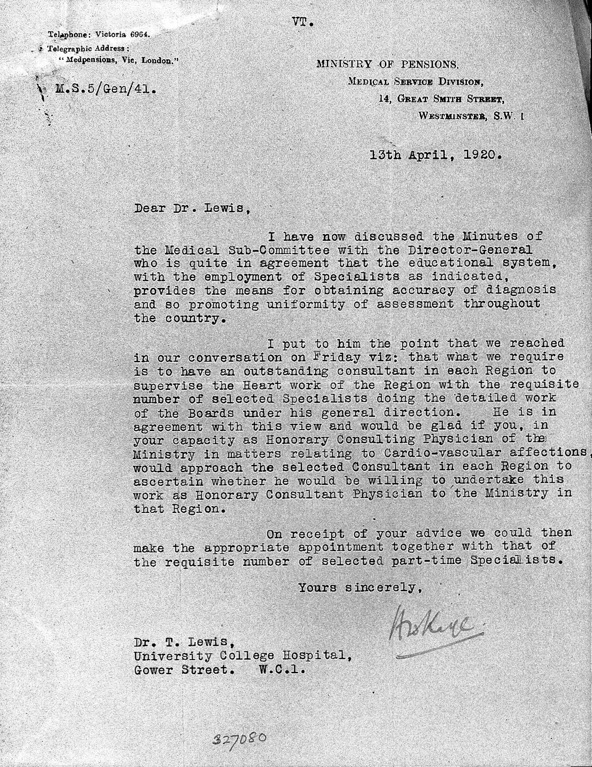 Sir Thomas Lewis (1881-1945) Ministry of Pensions to Lewis re employment of supervising heart specialists, 13 April 1920. Archives & Manuscripts Keywords: Thomas Lewis